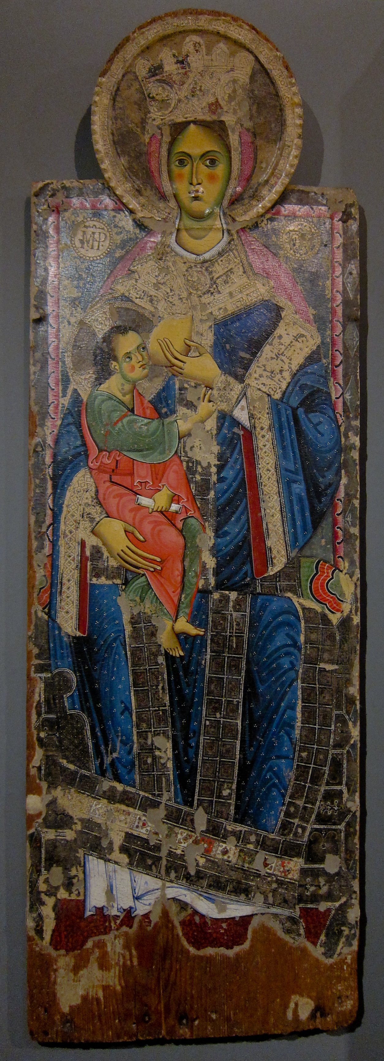 Madonna of the Milk, Painter from Abruzzo with Byzantine influence, 2nd half of 13th century